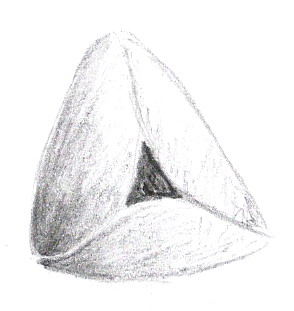 Hamantaschen, by Shirley